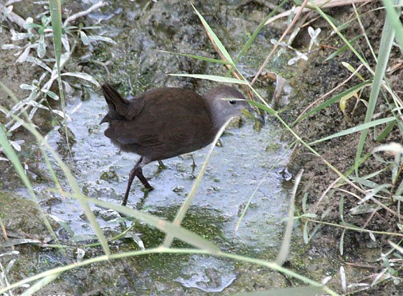 Brown Crake (Amaurornis akool) at Hodal in Faridabad District of Haryana, India.